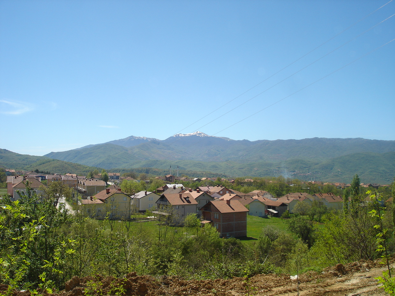 village of Balanci in Centar Župa Municipality, near Debar, Macedonia